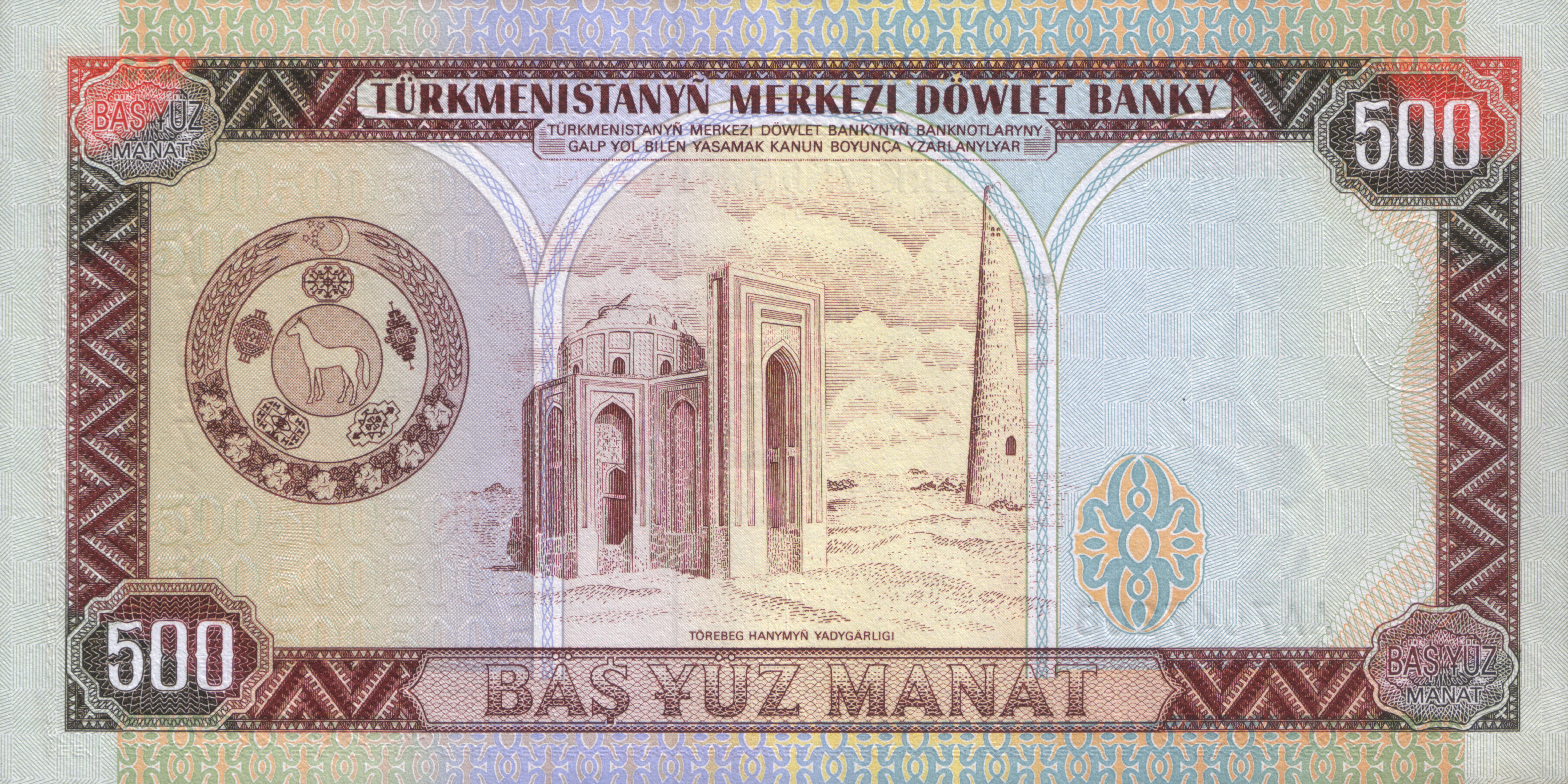 500 manats of Turkmenistan (1993)